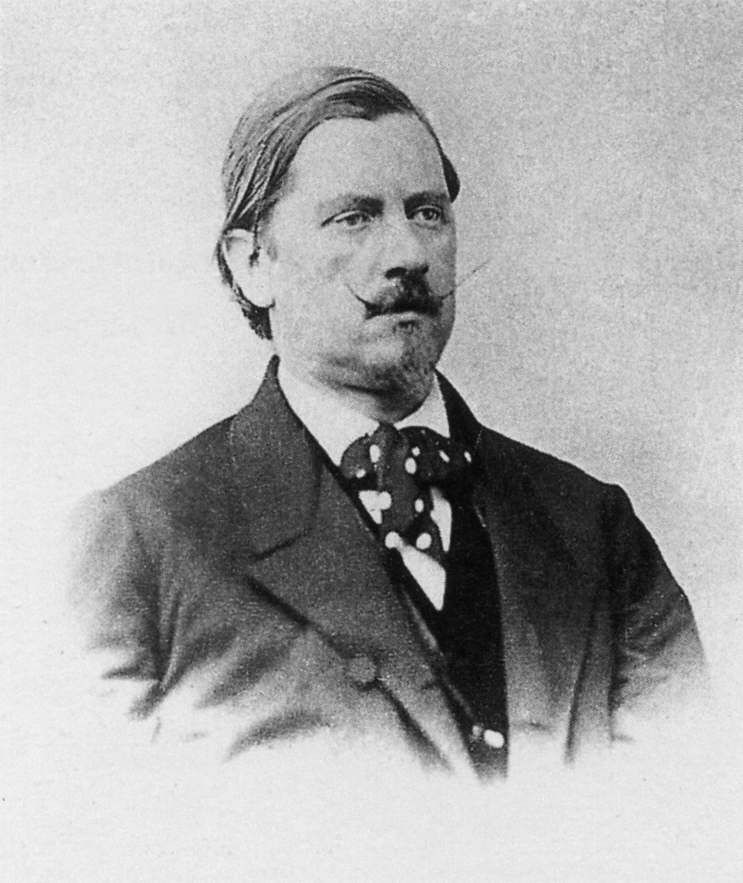 Portrait photo of Karl Maria Kertbeny, ca. 1865.